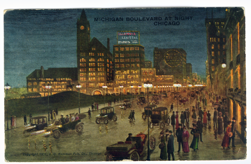 Post Card: Central Station Chicago, Michigan Avenue and Grant Park